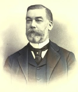 James Sutherland Source: An Encyclopedia of Canadian biography. Containing brief sketches and steel engravings of Canada's prominent men (Volume 1) Publisher: Montreal Canadian Press Syndicate Date: 1904-07 Possible Copyright Status: NOT_IN_COPYRIGHT